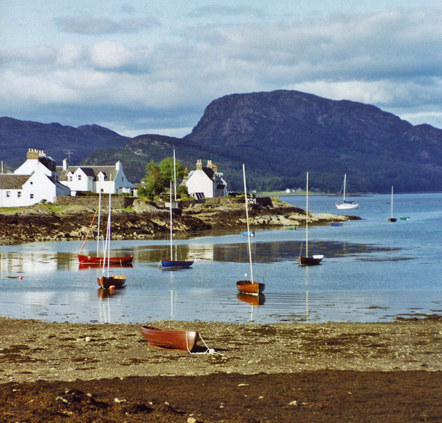 Moored Yachts , Plockton Looking towards cottages on Aird a' Mhorair.